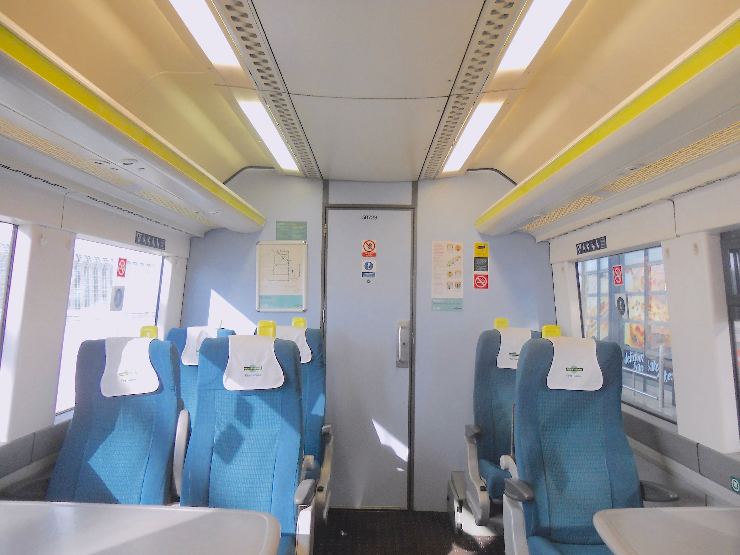 The interior of the First Class cabin from a Southern Railway Class 171